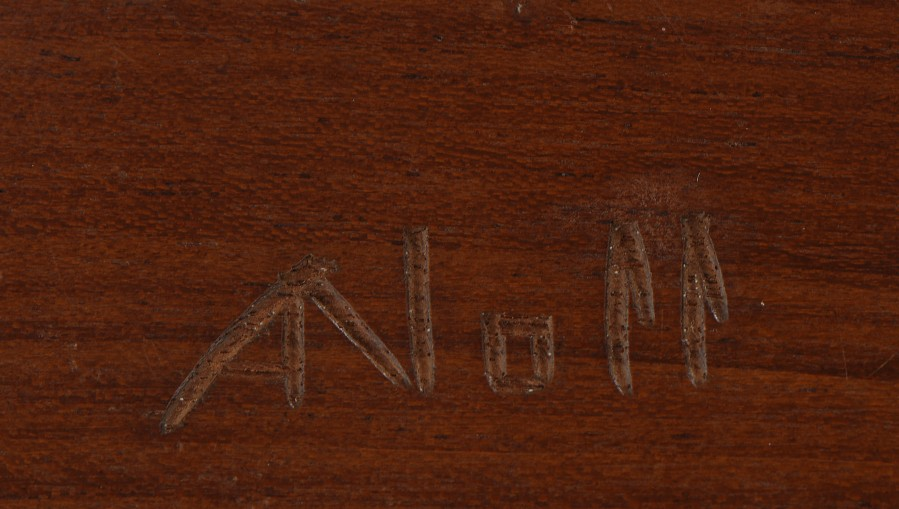 Alexandre Noll's signature